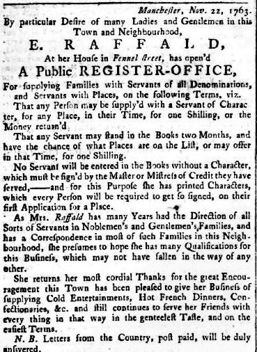 Advertisement in the Manchester Mercury from Elizabeth Raffald